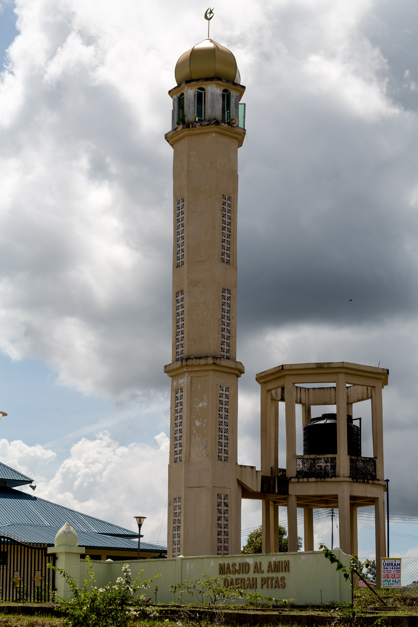 Pitas, Sabah: Masjid Al Amin Daerah Pitas / Al Amin Mosque District Pitas